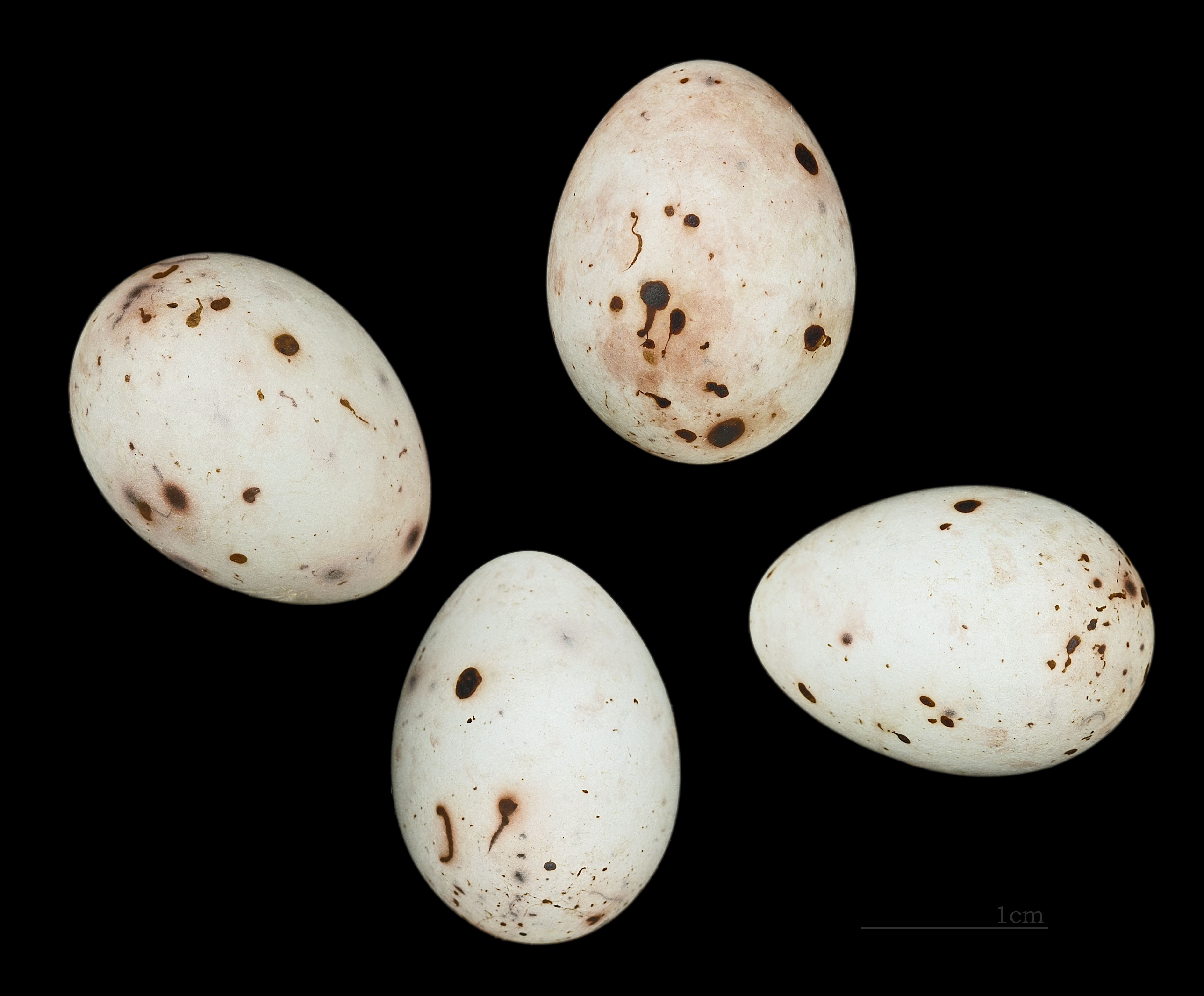 Egg of Common Chaffinch. Collection of Jacques Perrin de Brichambaut.